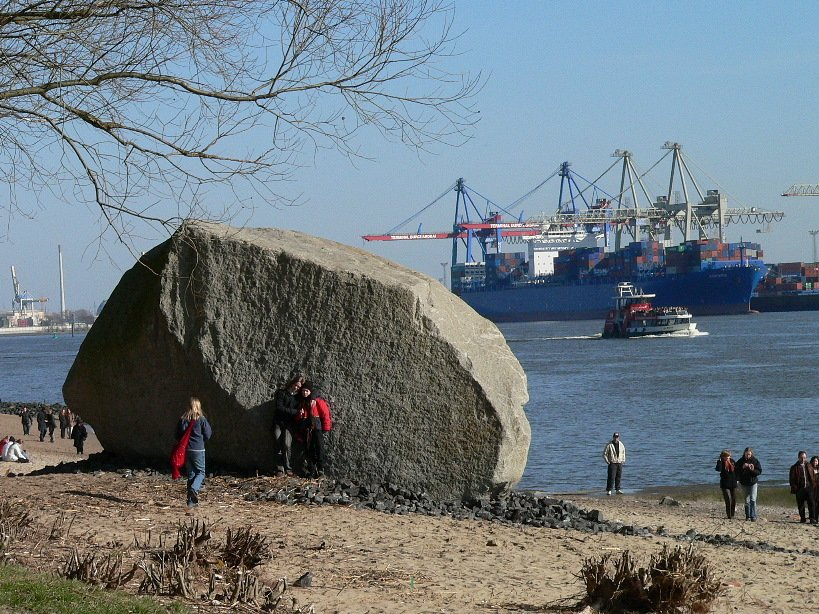 Pleistocene erratic boulder named „Alter Schwede“, weighing 217 tons, on public display at the bank of the Elbe River in Hamburg, Germany. The boulder was found in the river bed during dredging operations in 1999.